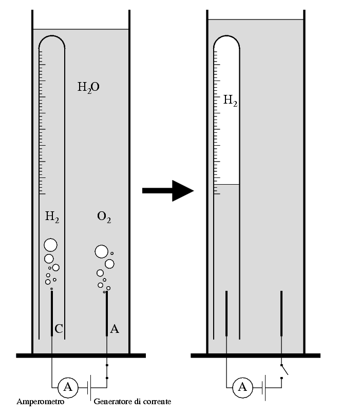 An electrolysis diagram